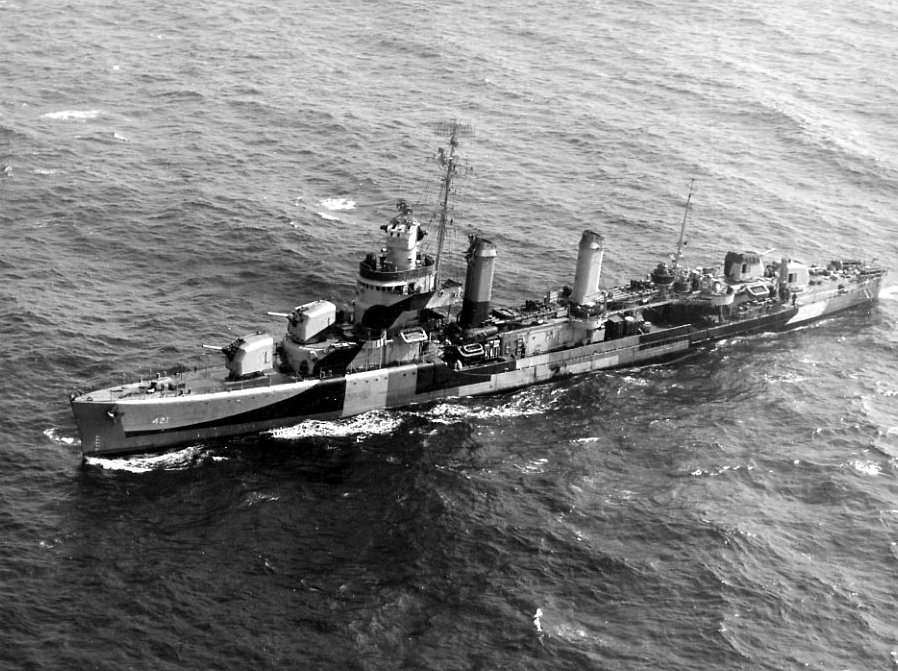 The U.S. Navy destroyer USS Benson (DD-421) underway at sea, circa 1944. She is painted in Camouflage Measure 32, Design 3D.